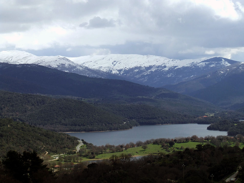 Gennargentu National park in winter (lake of Gusana - Gavoi) Sardinia, Italy